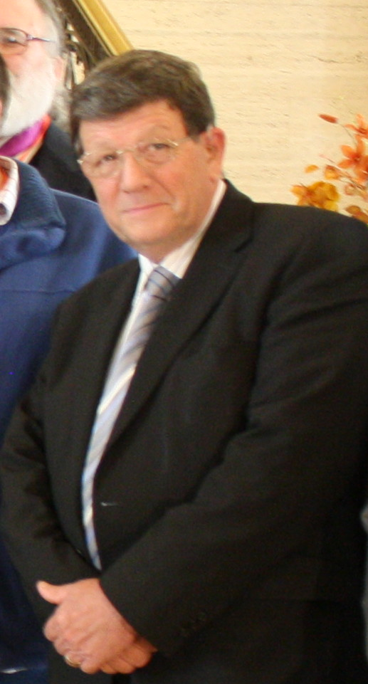 Pat Doherty MP